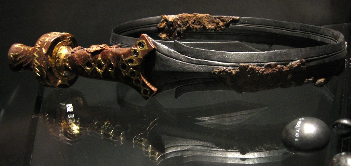 Celtic sword in Rijksmuseum van Oudheden, Leiden.